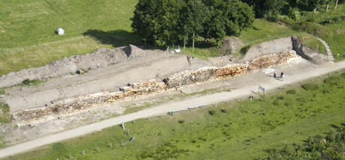 aerial view of Waldemarswall during Restoration